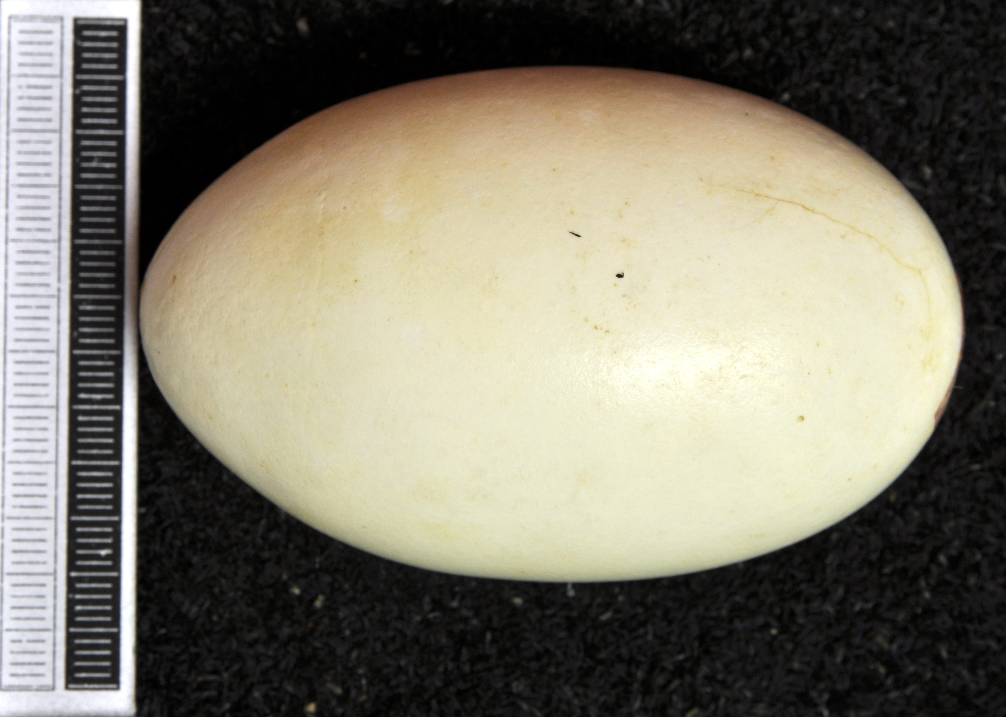 Greater white-fronted goose Anser albifrons , egg, Coll. Museum Wiesbaden